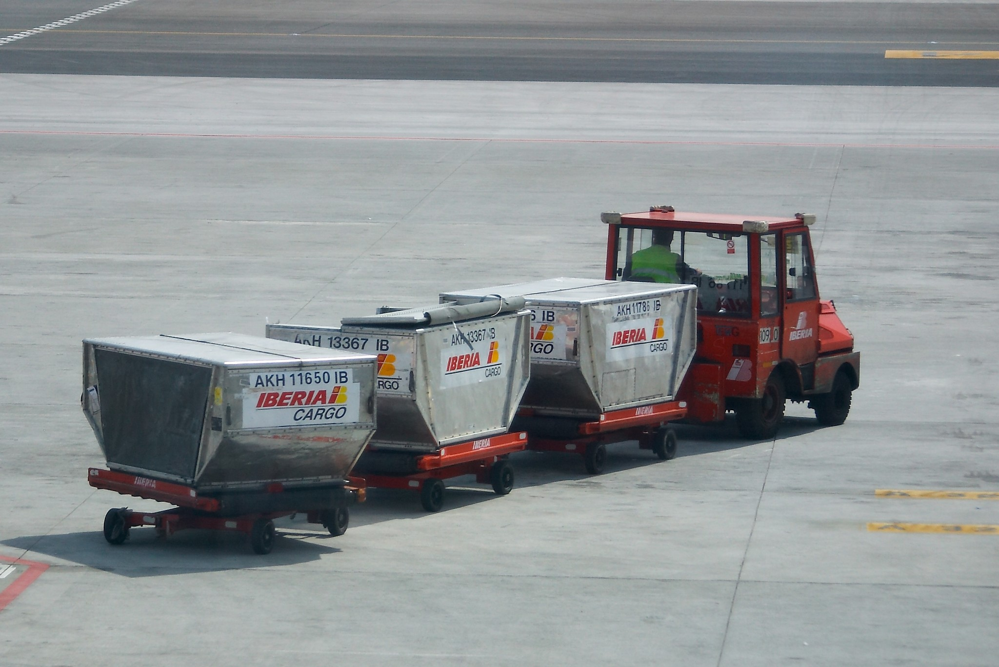 A tractor carrying luggage at Madrid Barajas airport, Spain.